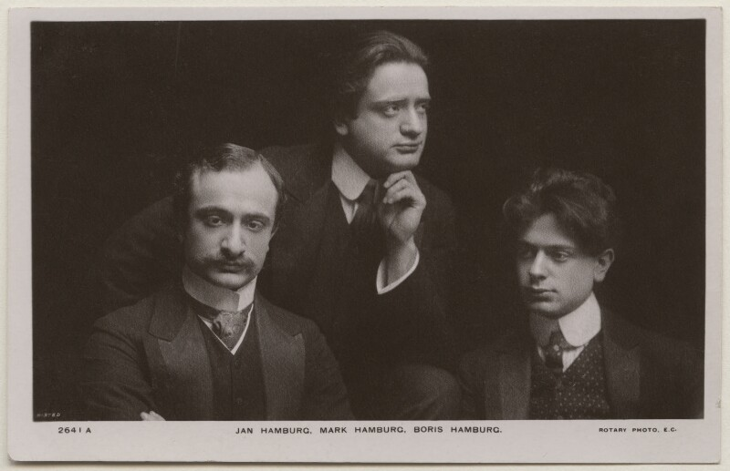 Photo by Ernest Walter Histed